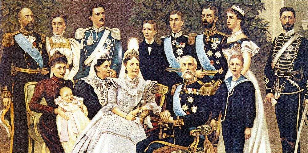 King Oscar II of Sweden (1829-1907) and family, from left: Prince Oscar and Princess Ebba Bernadotte, Princess Ingeborg with daughter Margaretha, Prince Carl, Princess Teresia, Queen Sofia, Princes Wilhelm and Gustaf (VI) Adolf, (king), Crown Prince Gustaf (V), Crown Princess Viktoria, Princes Erik and Eugen